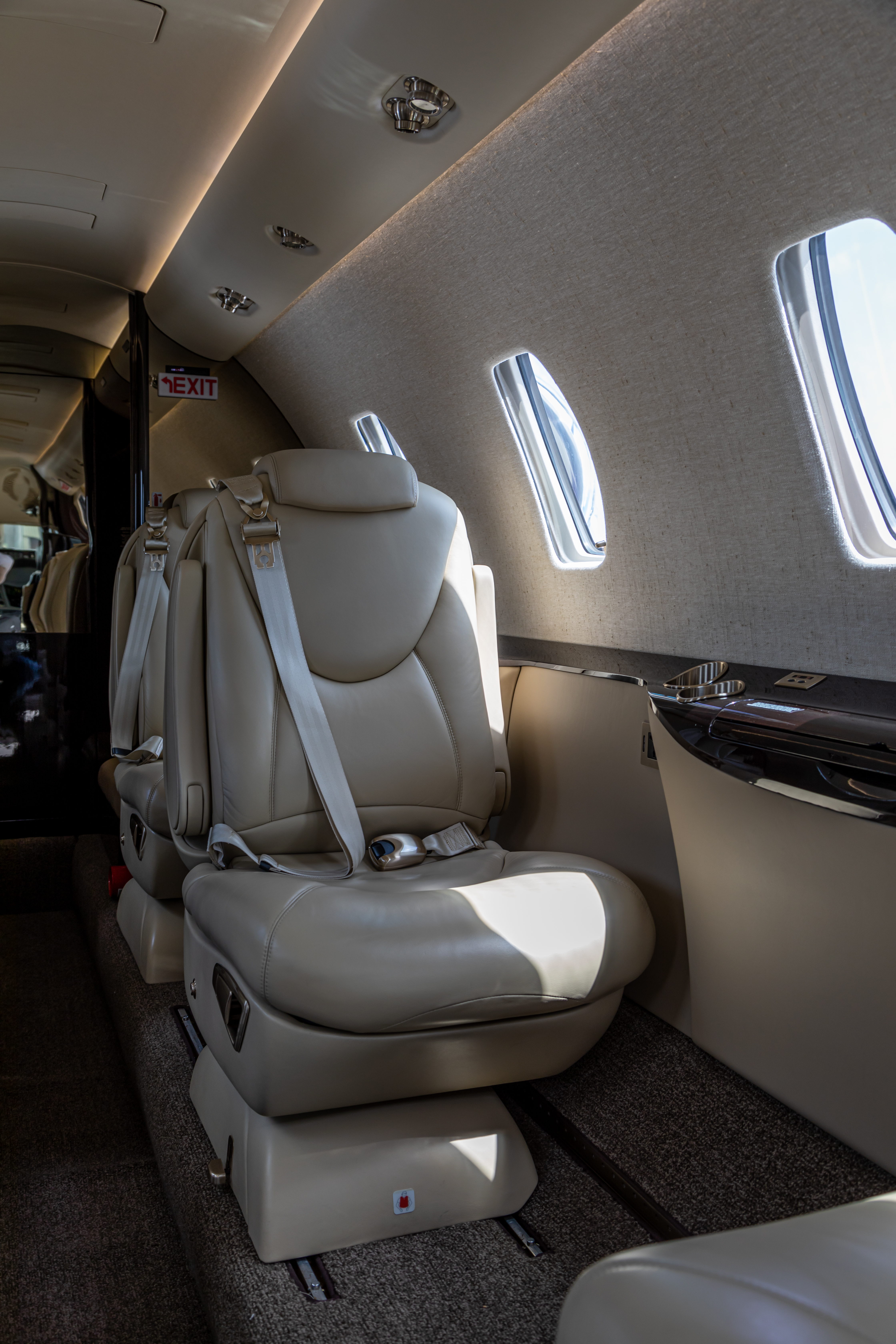 Passenger seat aboard a Cessna Citation Exel at EBACE 2019, Palexpo, Switzerland